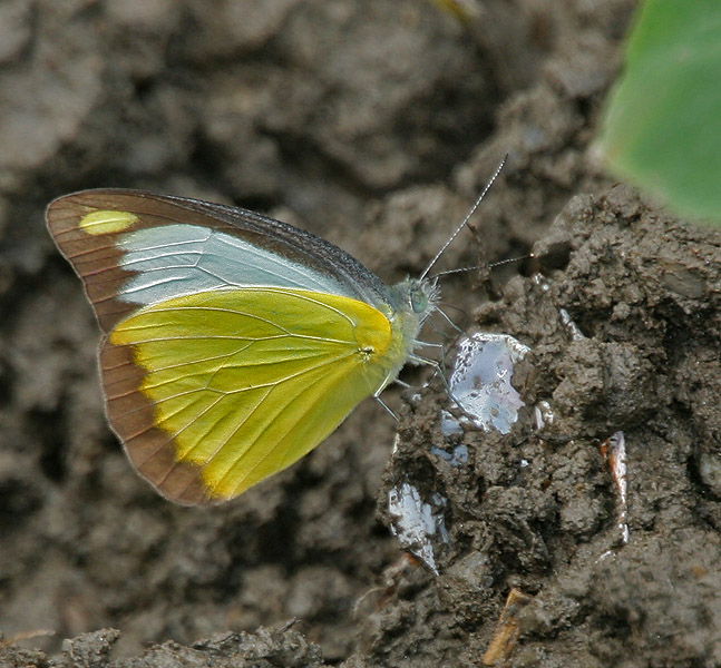 Chocolate Albatross , Appias lyncida at Jayanti in Buxa Tiger Reserve in Jalpaiguri district of West Bengal, India.